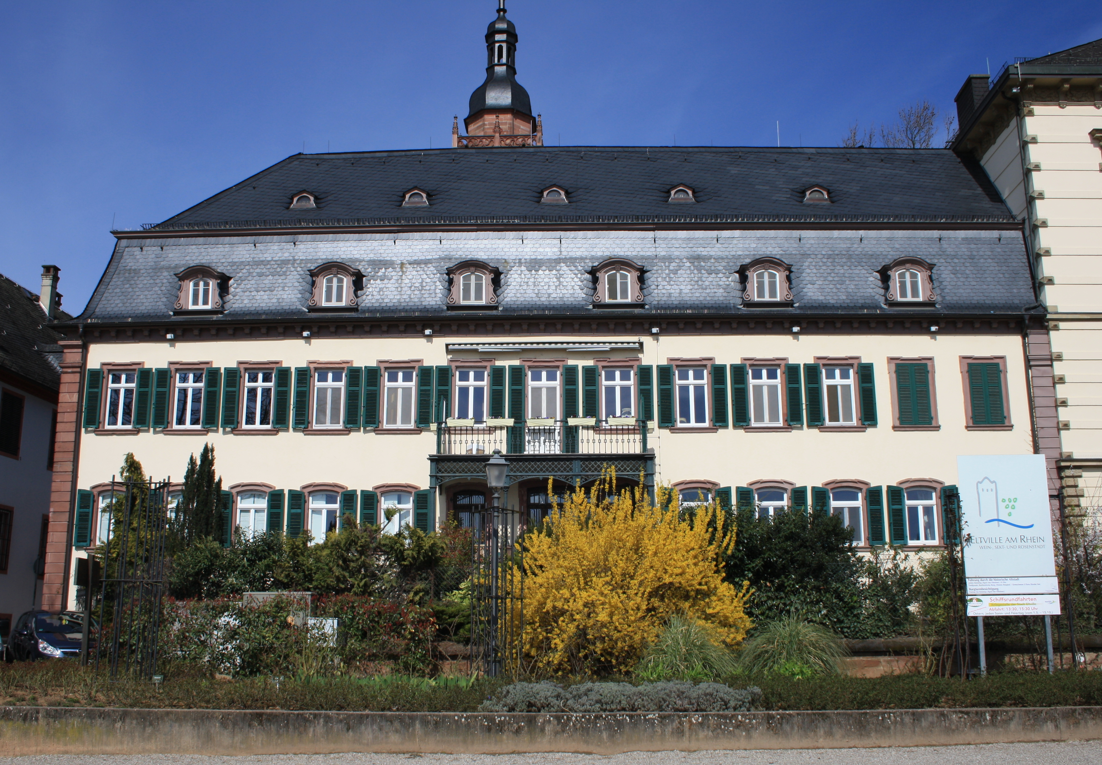 Eltville, House of Rose (Rhine site)